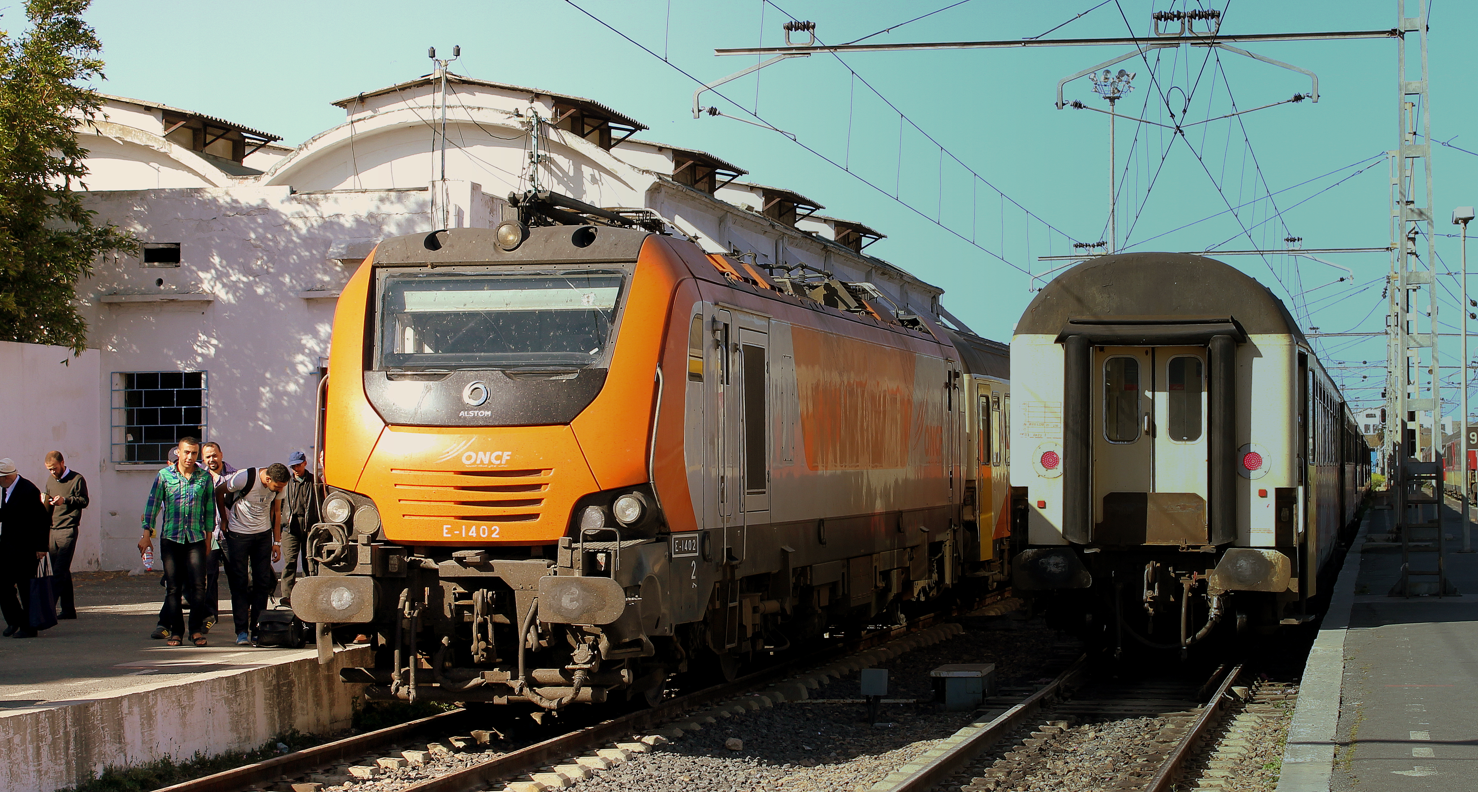 A E 1400 class locomotive at a railway coach at Casa Voyageurs train station; Casablanca, Morroco